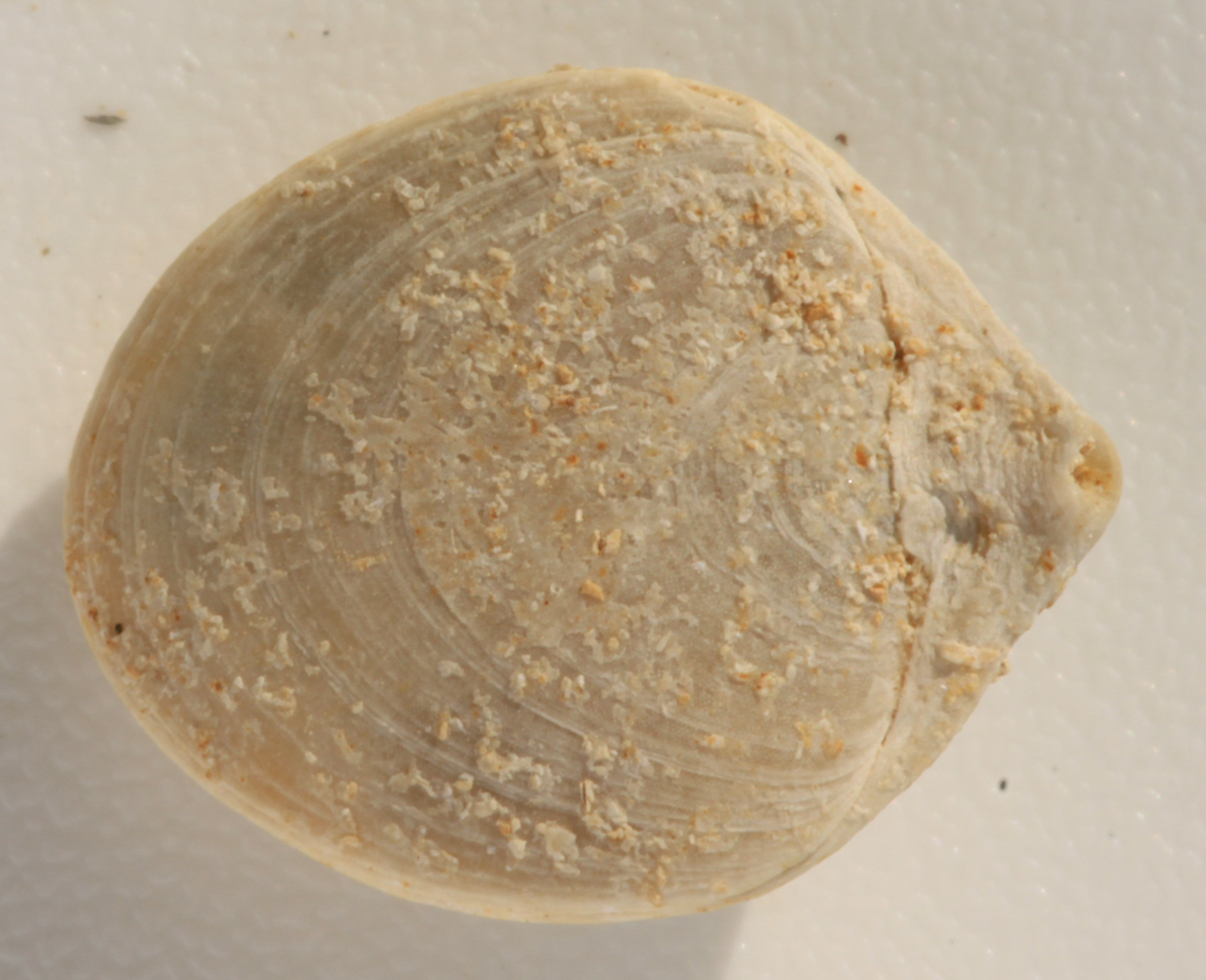 A Victorithyris peterboroughensis lampshell, view of the brachial valve, 14mm along the axis, found at Childers Cave, Victoria, Australie, from the Miocene